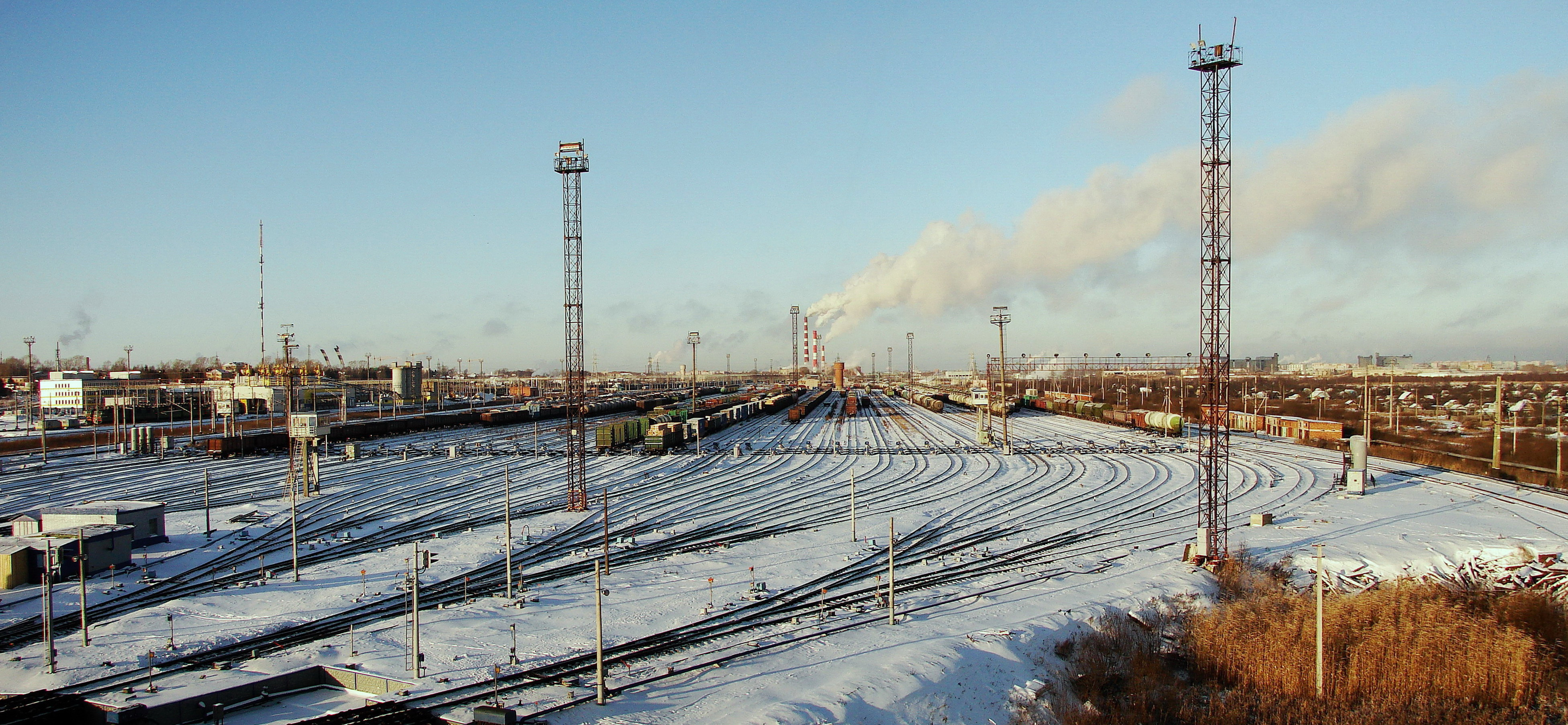 Russia, Vologda, Losta classification yard